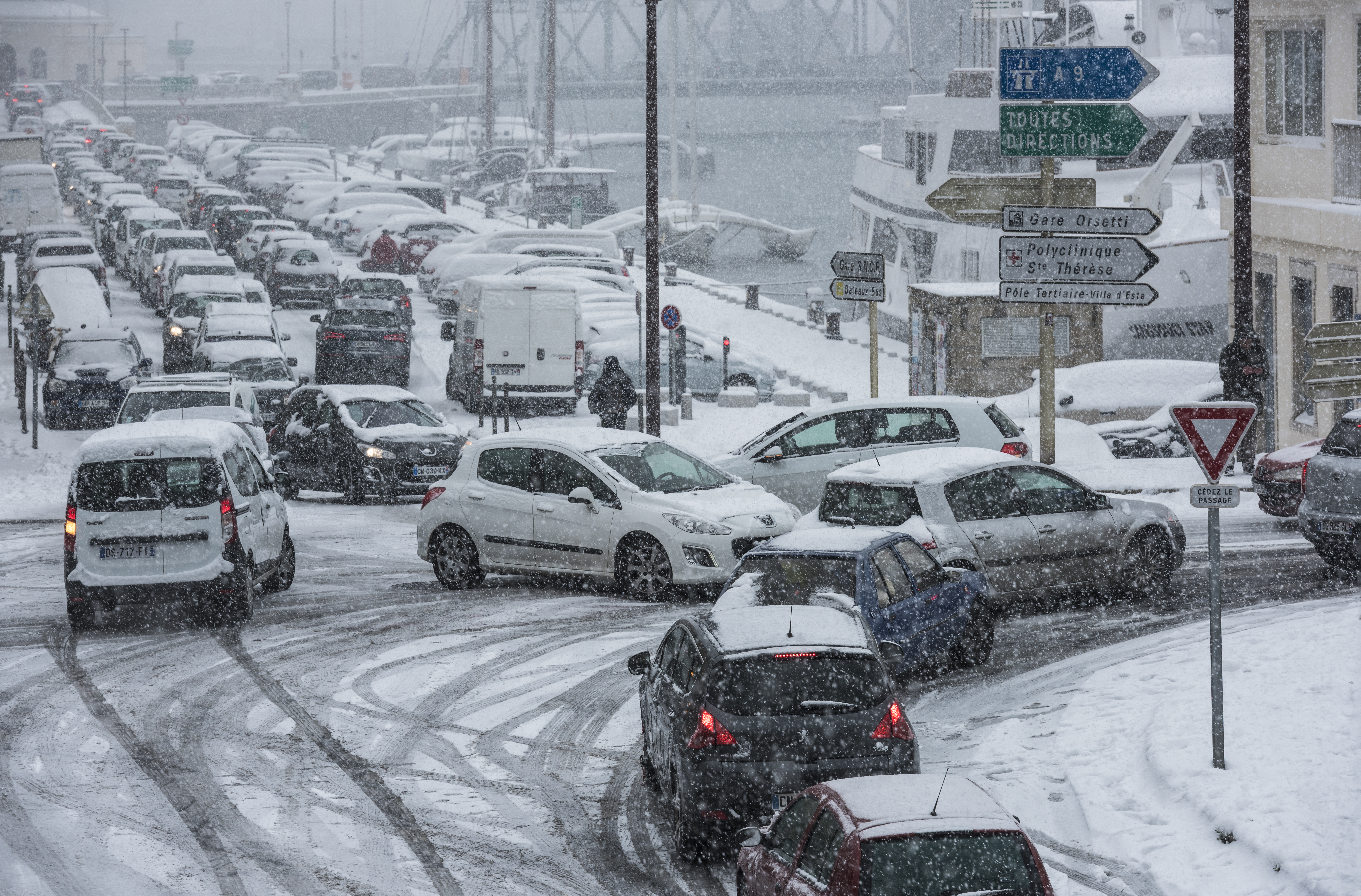 Snow - Place Delille - Sète, Hérault, France